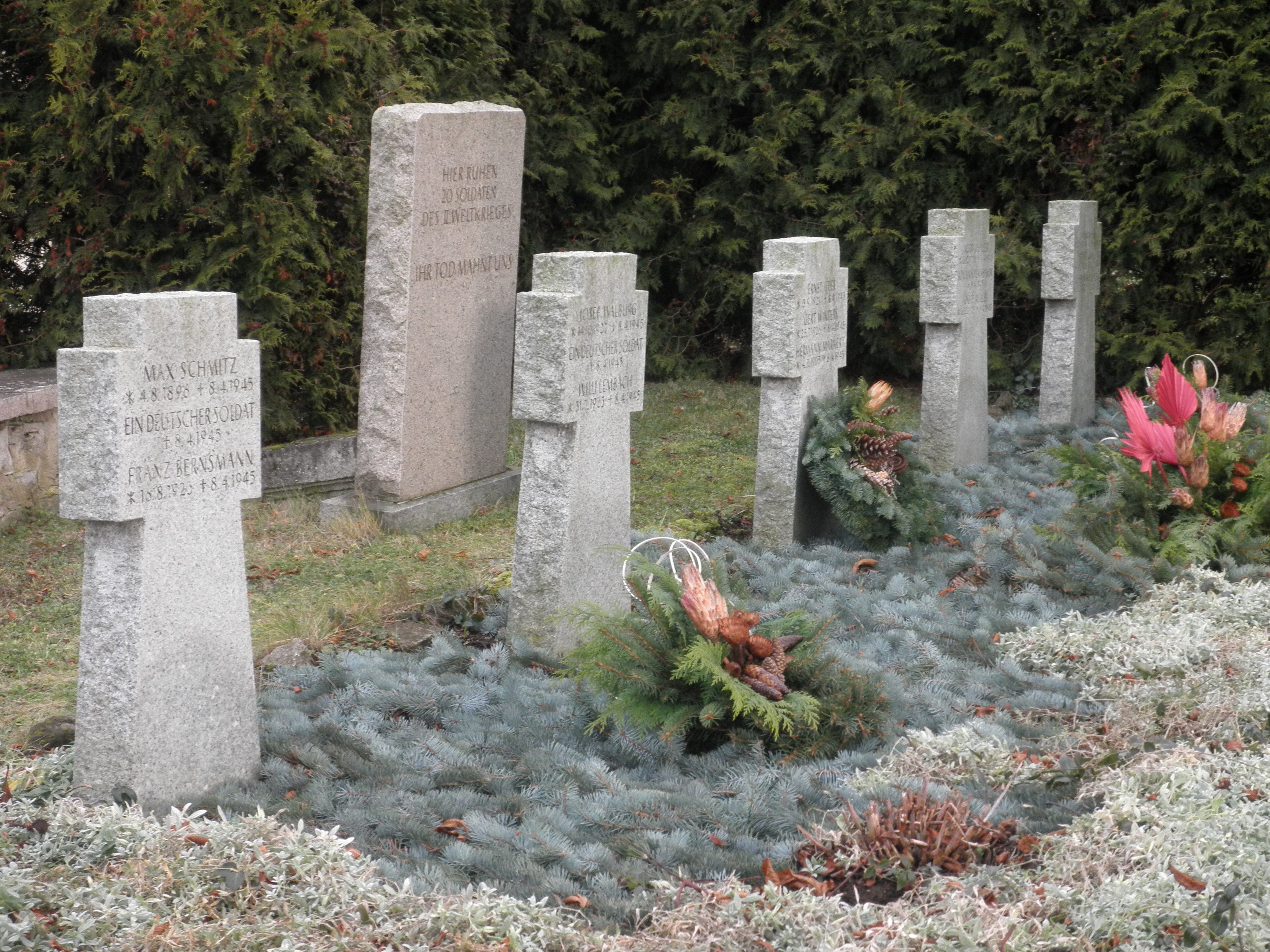 Soldiers Graves in Marolterode in Thuringia